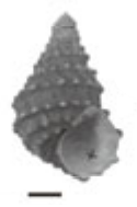 Black-ang white photo of an apertural view of the shell of Tchangmargarya yangtsunghaiensis (Tchang & Tsi, 1949) (synonym: Margarya yangtsunghaiensis) (holotype IOZ-00001), Lake Yangzonghai. Scale bar is 1 cm.